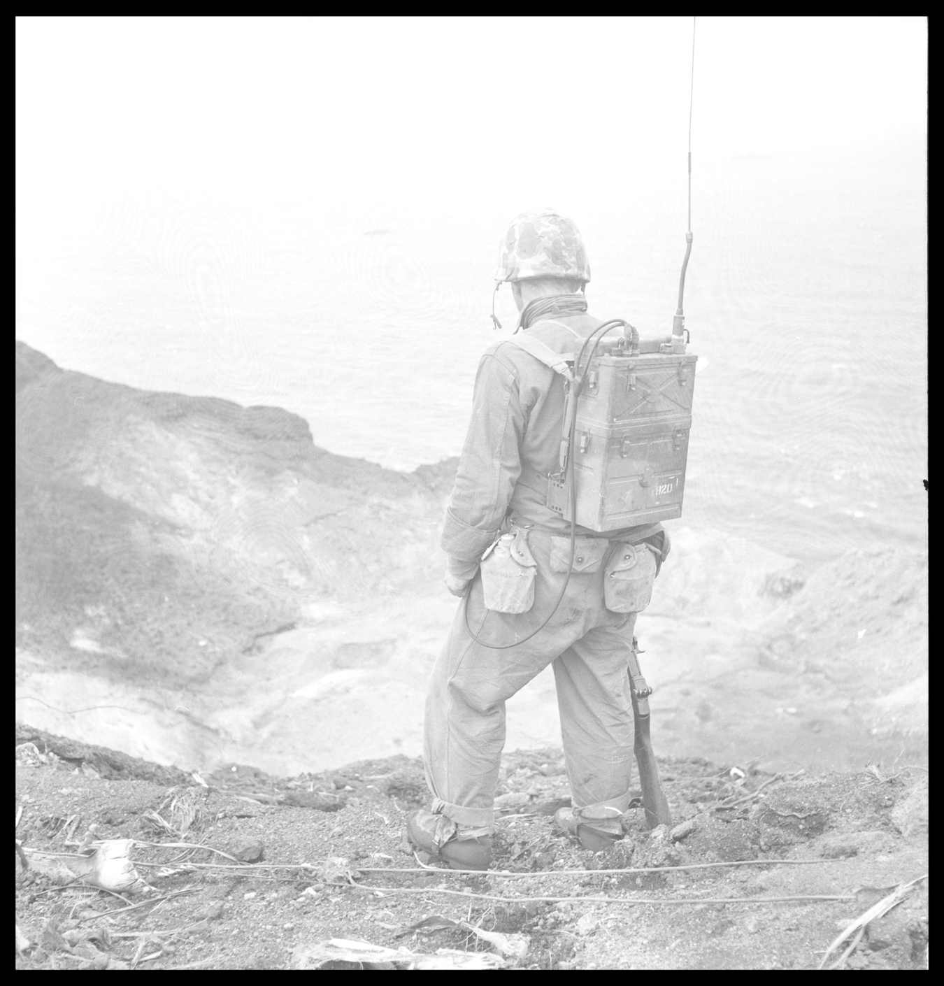 Radioman PFC Raymond Jacobs looks down from atop Suribachi. From the Louis R. Lowery Collection (COLL/2575) at the Archives Branch, Marine Corps History Division OFFICIAL USMC PHOTOGRAPH